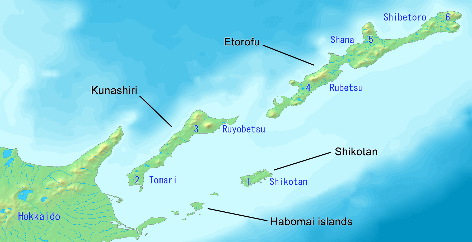 Map of the Northern Territories of Japan. It includes Kunashiri, the Habomai islands, Etorofu and Shikotan. It is claimed as part of Nemuro Subprefecture. It features the Japanese districts: 1. Shikotan, 2. Tomari, 3. Ruyobetsu, 4. Rubetsu, 5. Shana, 6. Shibetoro. This map has the Japanese island names. Created with DEMIS World Map Server.